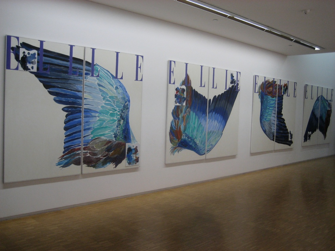 The work Grande Prédelle Rainbow Elbow (2008) by Agnès Thurnauer